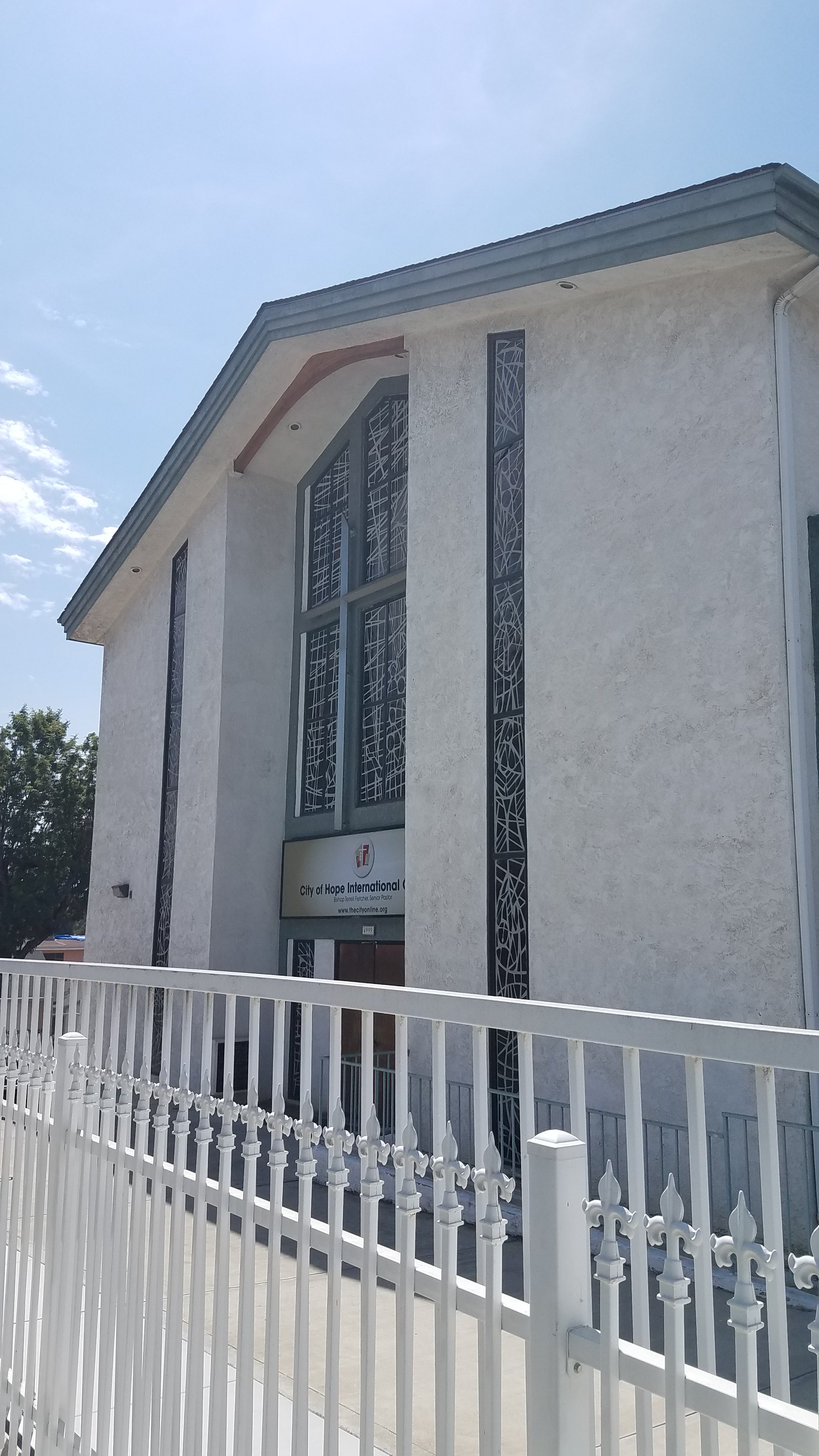 4999 Holly Drive, in the Lincoln Park neighborhood of San Diego